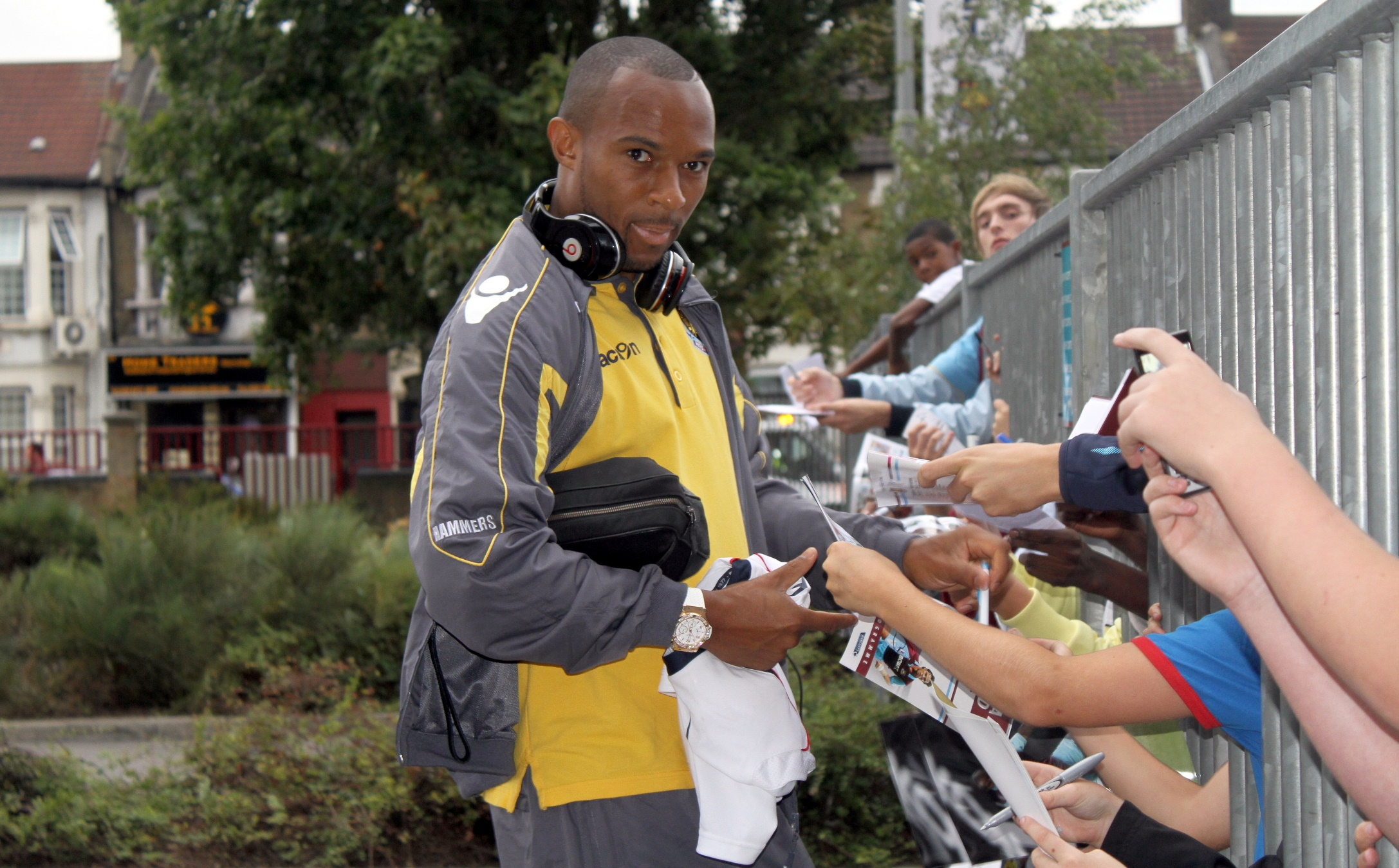 Danny Gabbidon signing autographs Upton Park, post match v Bolton Wanderers 21 Aug 2010